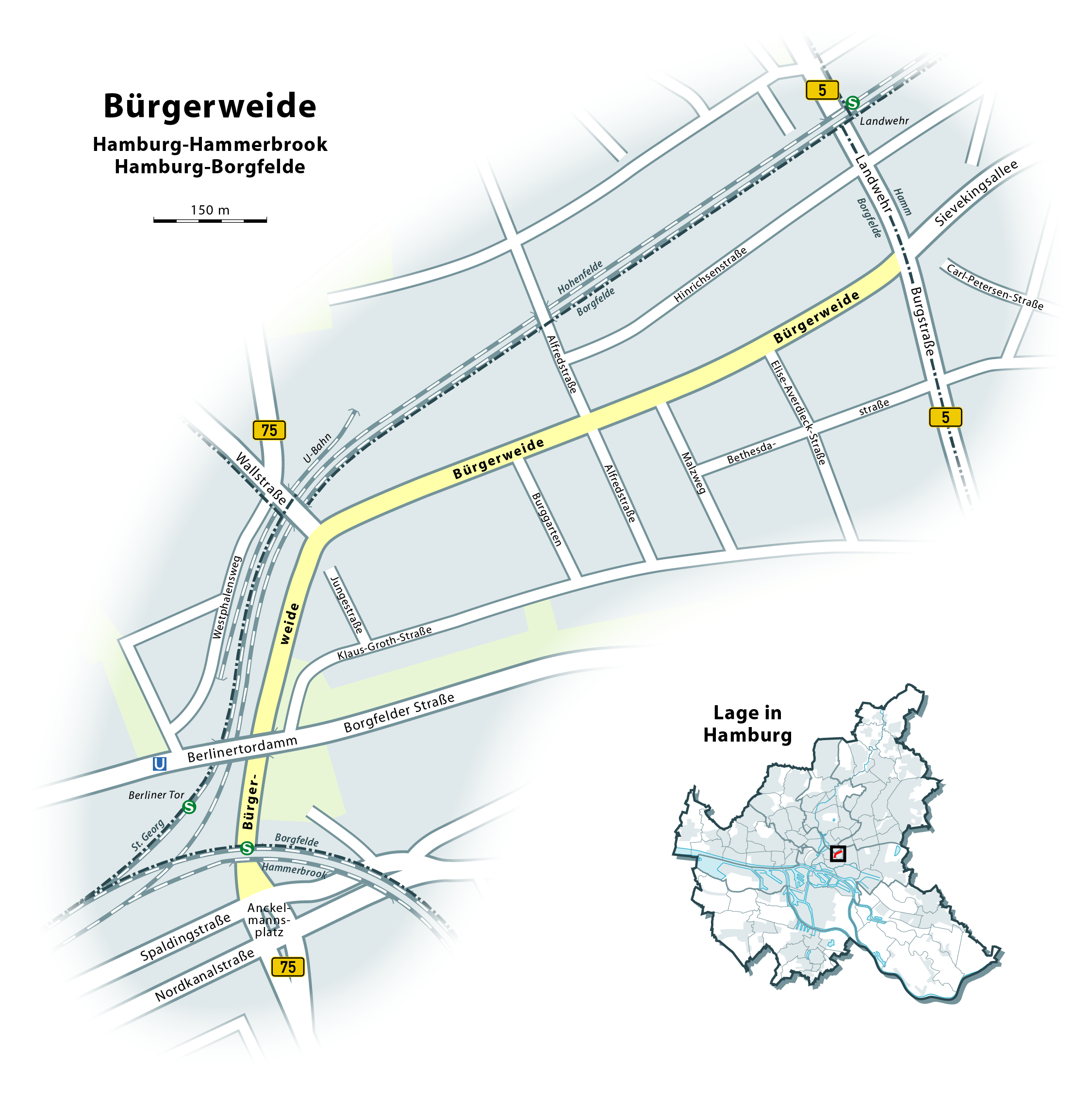 Map of Bürgerweide, Hamburg